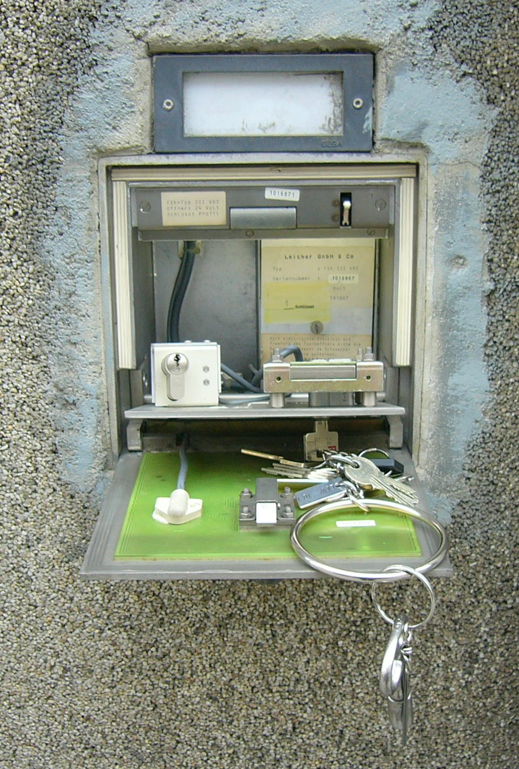 key depot for the fire fighters